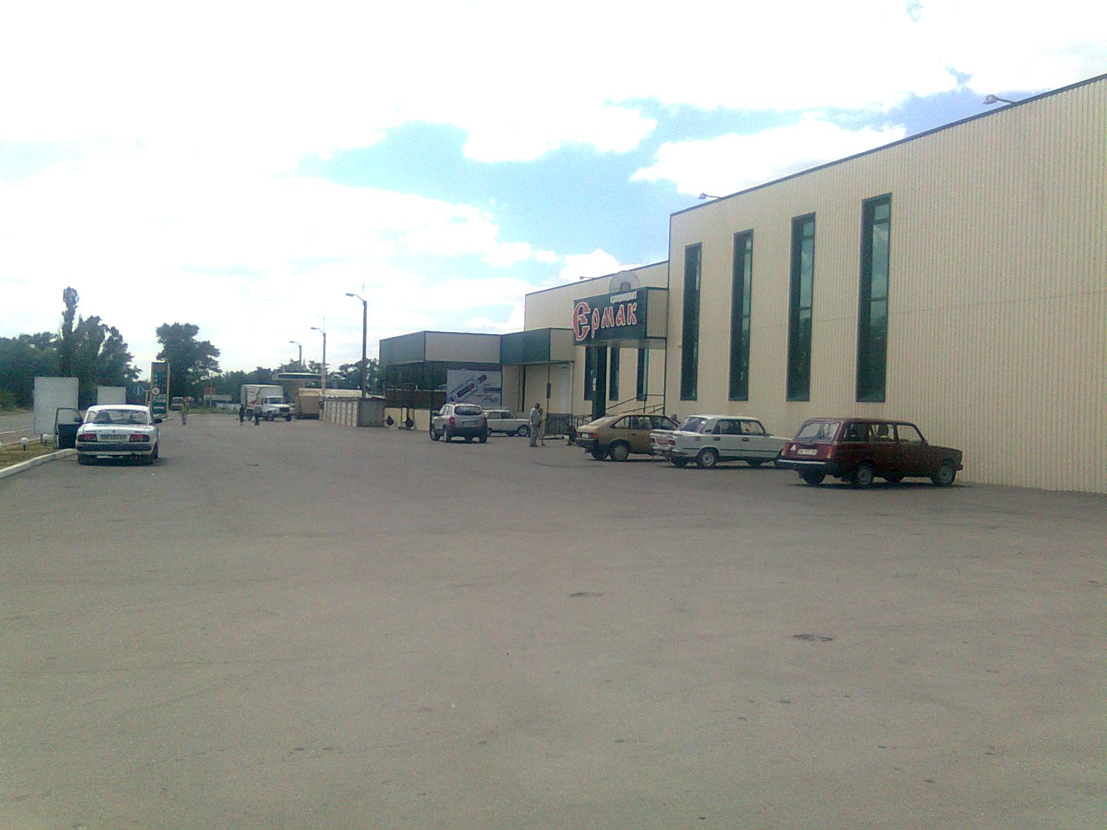 supermarket